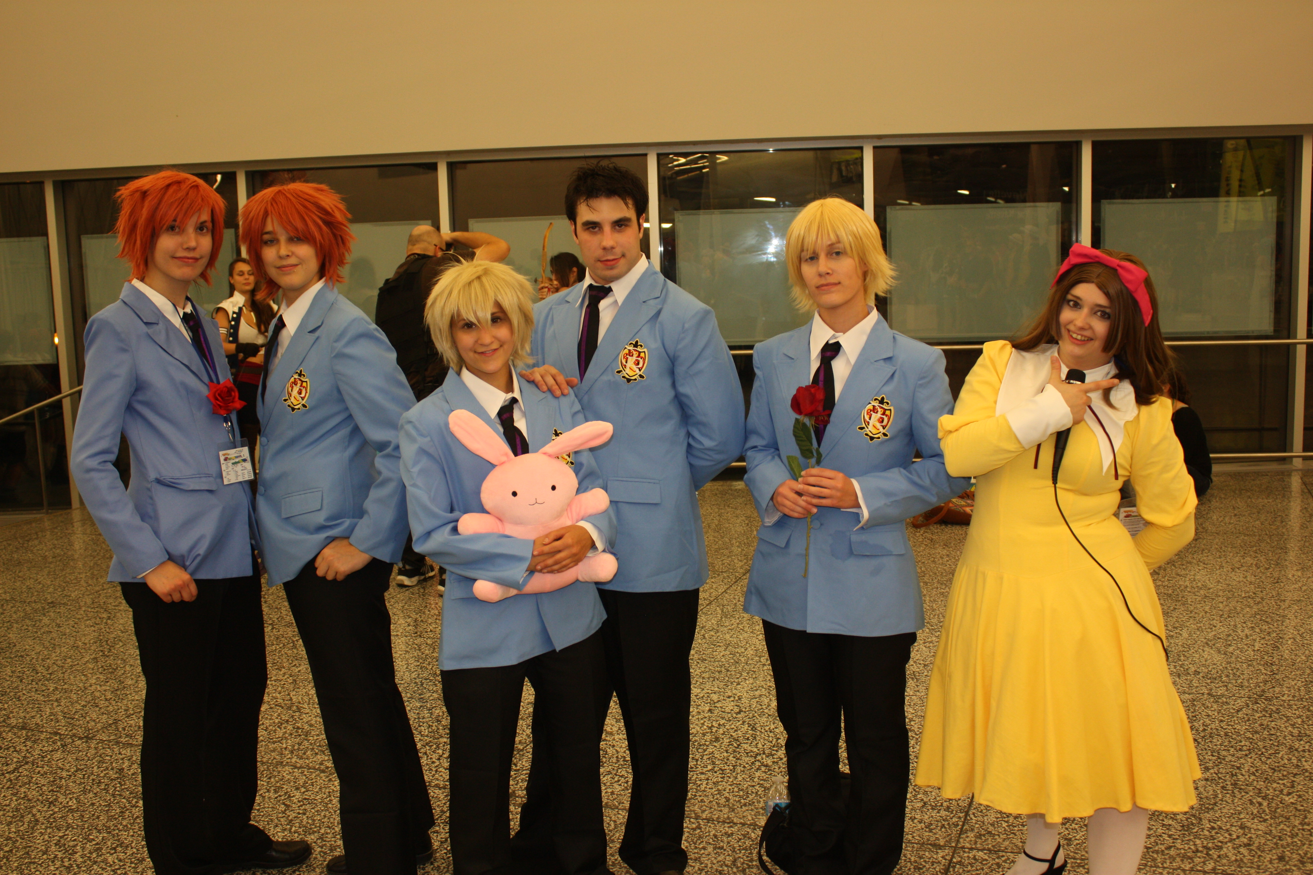 Otakuthon 2014: Ouran High School Host Club